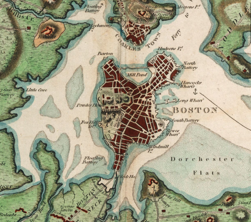 Map of Boston